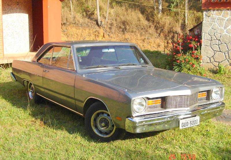 Dodge Dart Coupé 1980 Brazil Museu do Dodge Curitiba